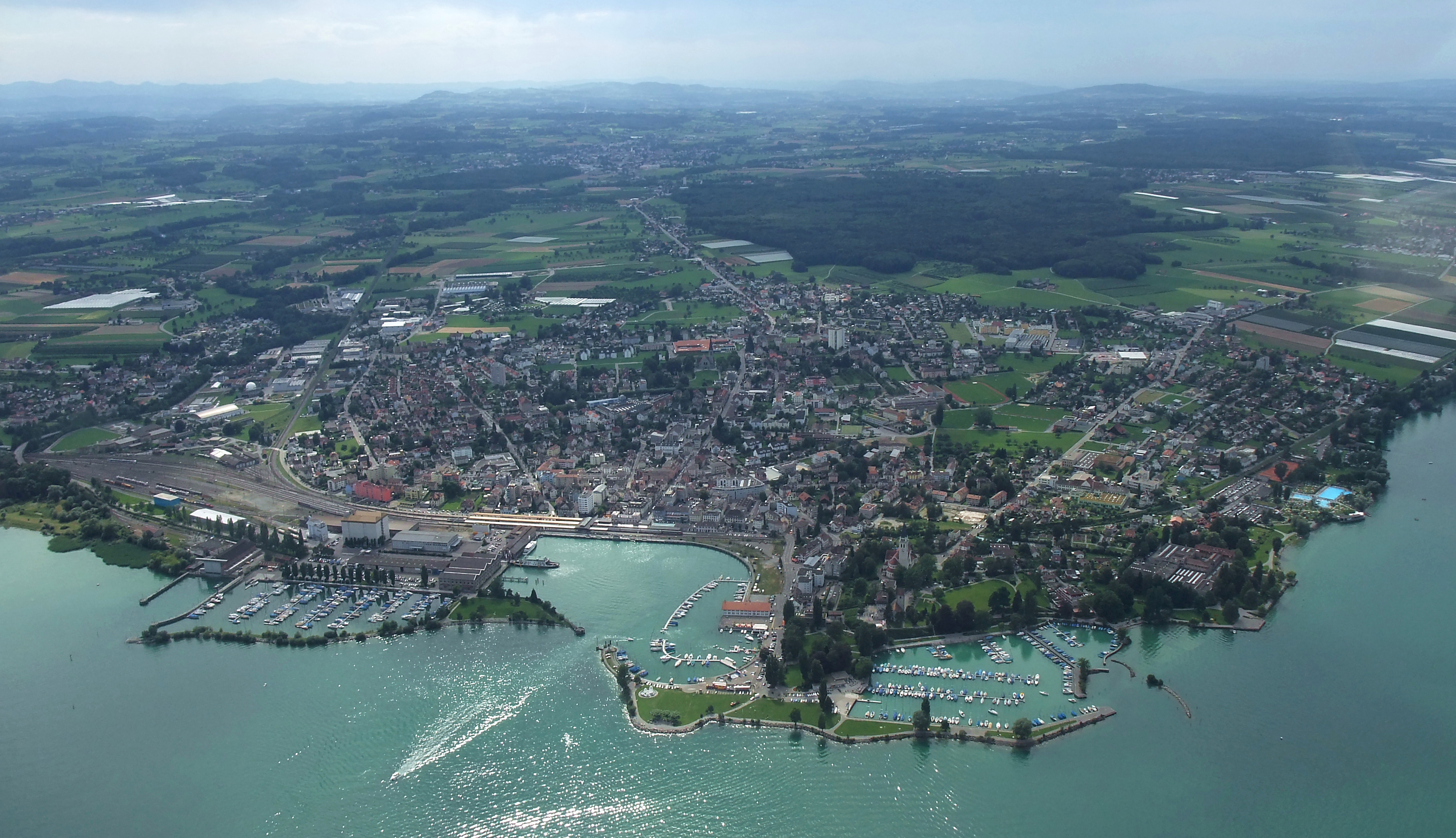 Aerial view of Romanshorn, Switzerland